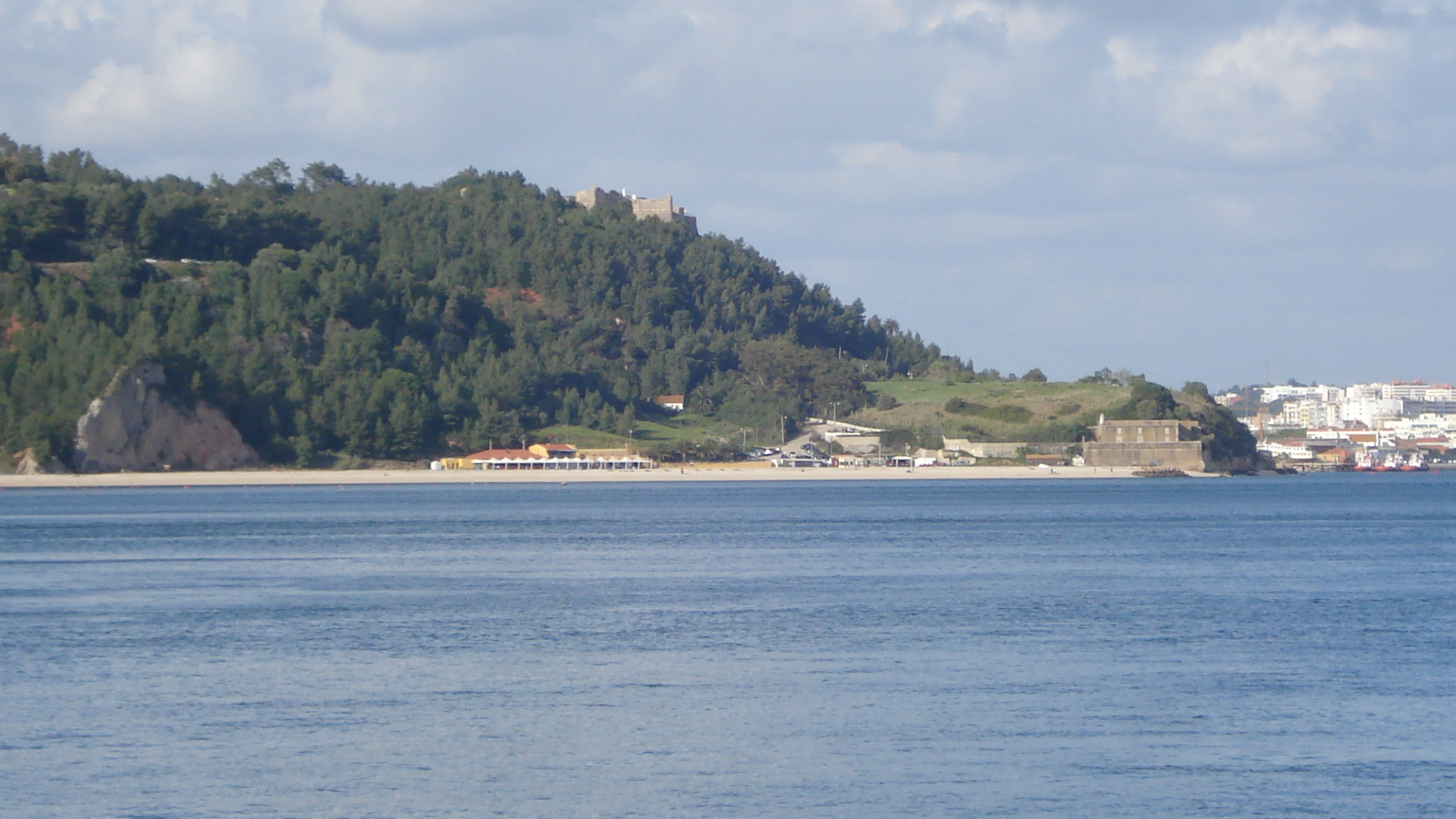 Beach and fort of Albarquel, Setúbal, Portugal